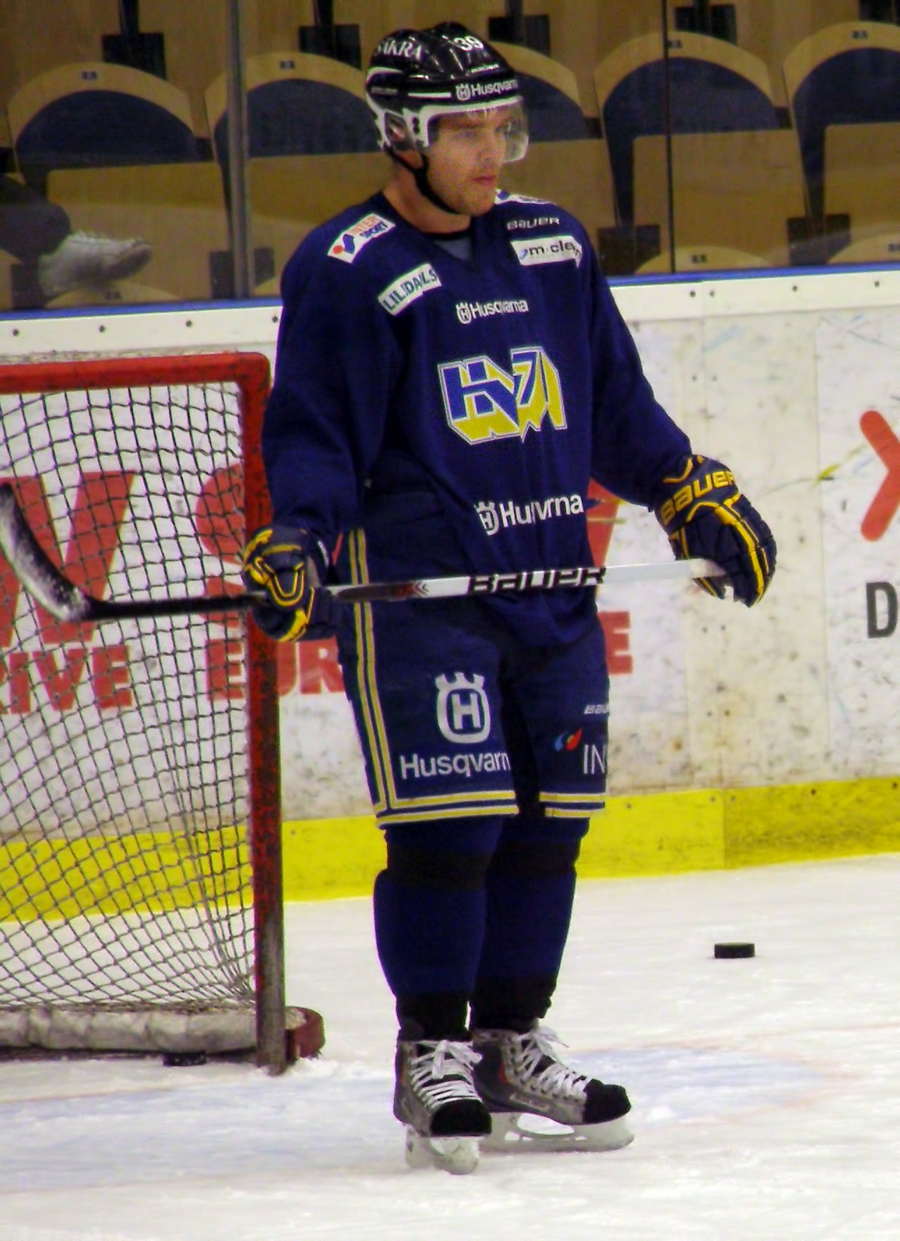 Jukka Voutilainen during practise.